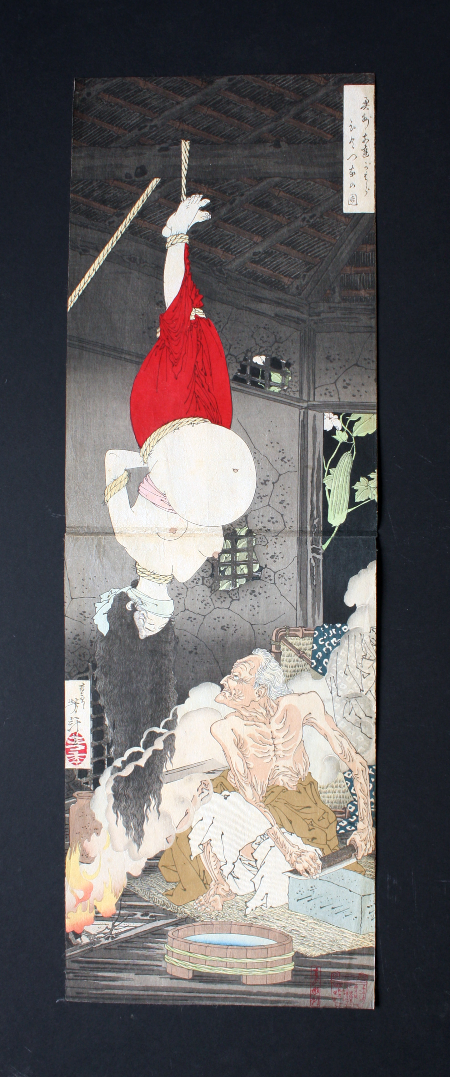 Photo of The Lonely House on Adachi Moor. Some extra information